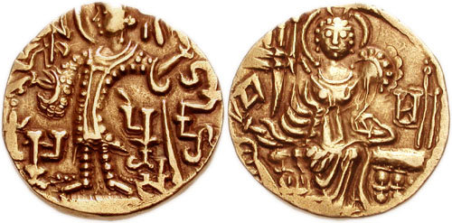 Kapa Piryasa (Gadahara). Circa 350-375 CE